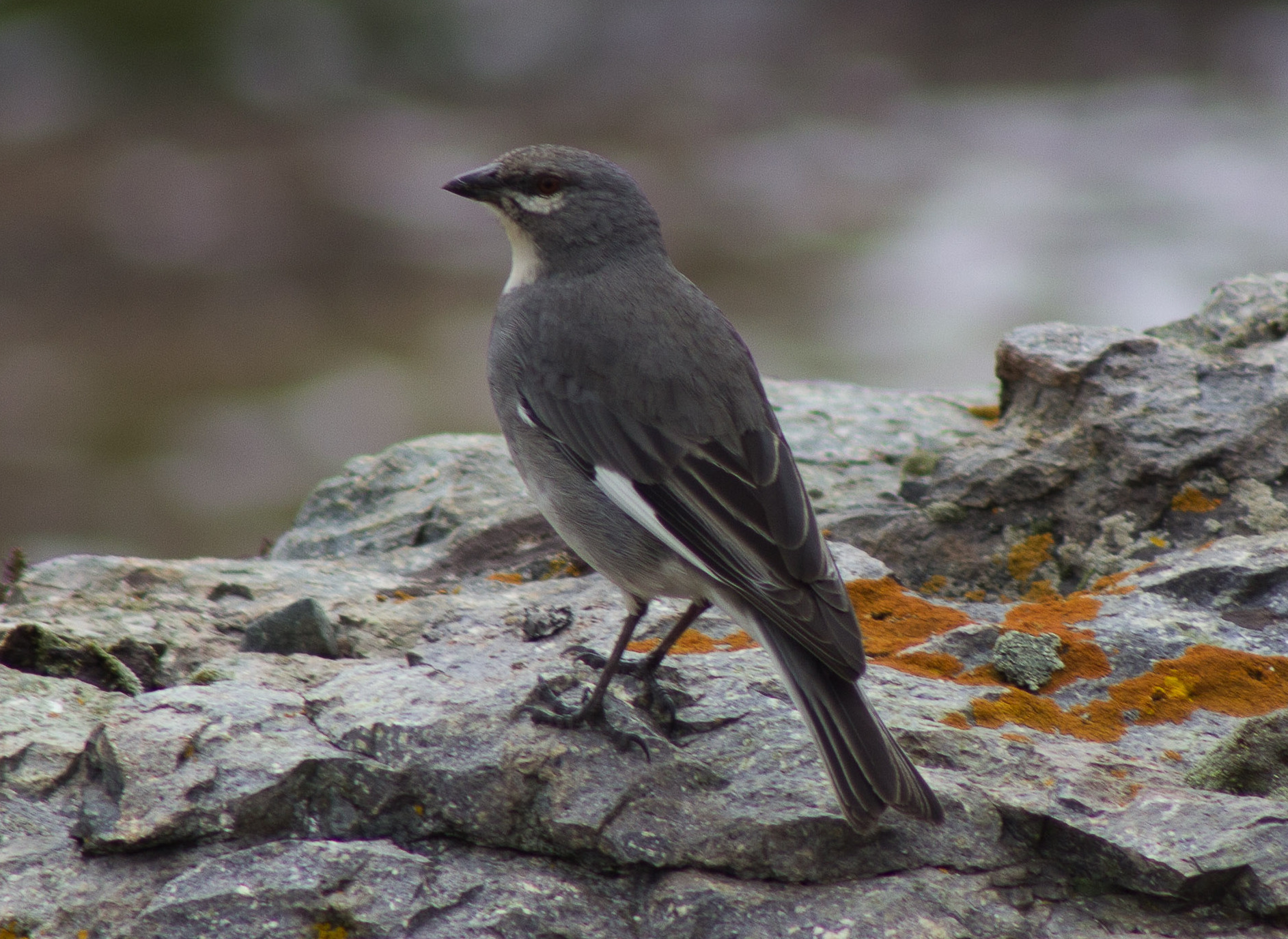 Diuca de ala blanca